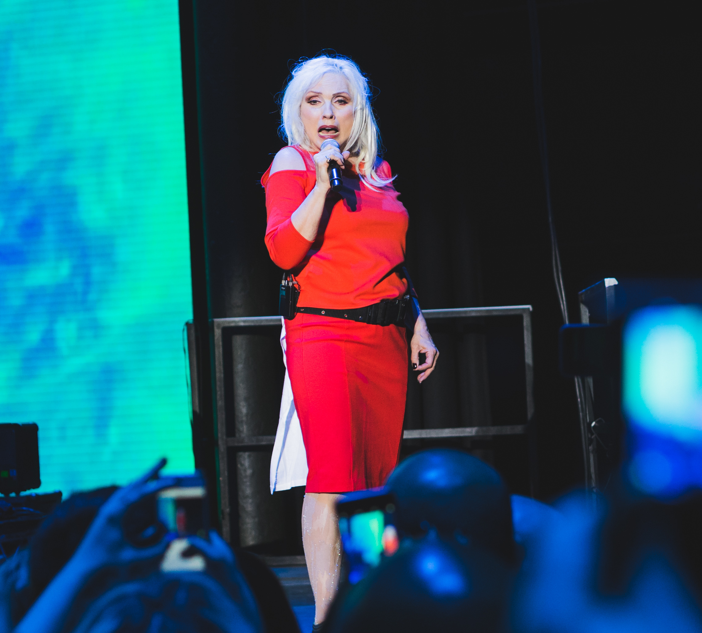 BlondieRoundhouse030517-17